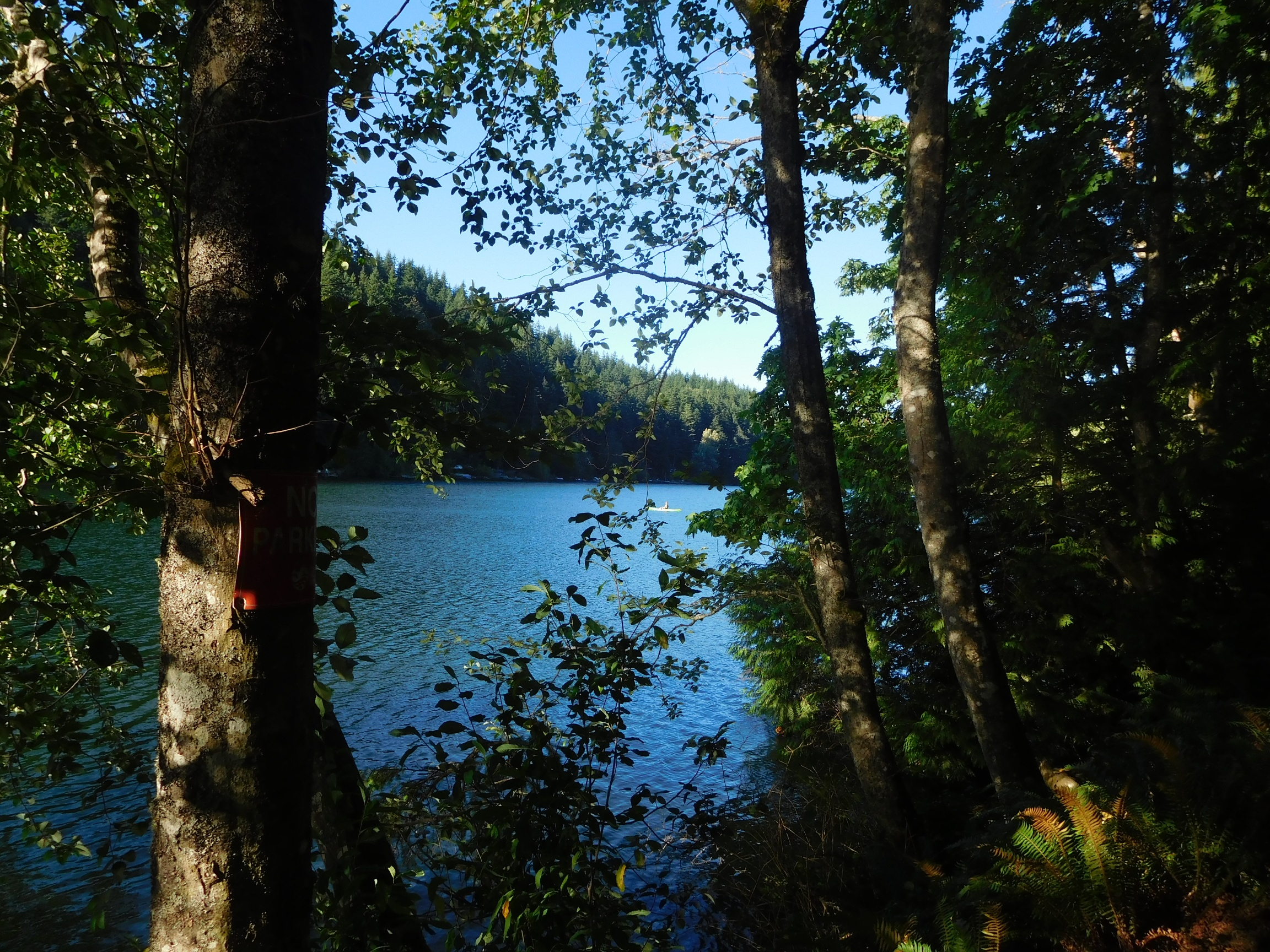 Toad Lake version two a few days later. I made it to the public dock using Hillsdale and Toad Lake Roads. No road connection to Emerald Lake Way.